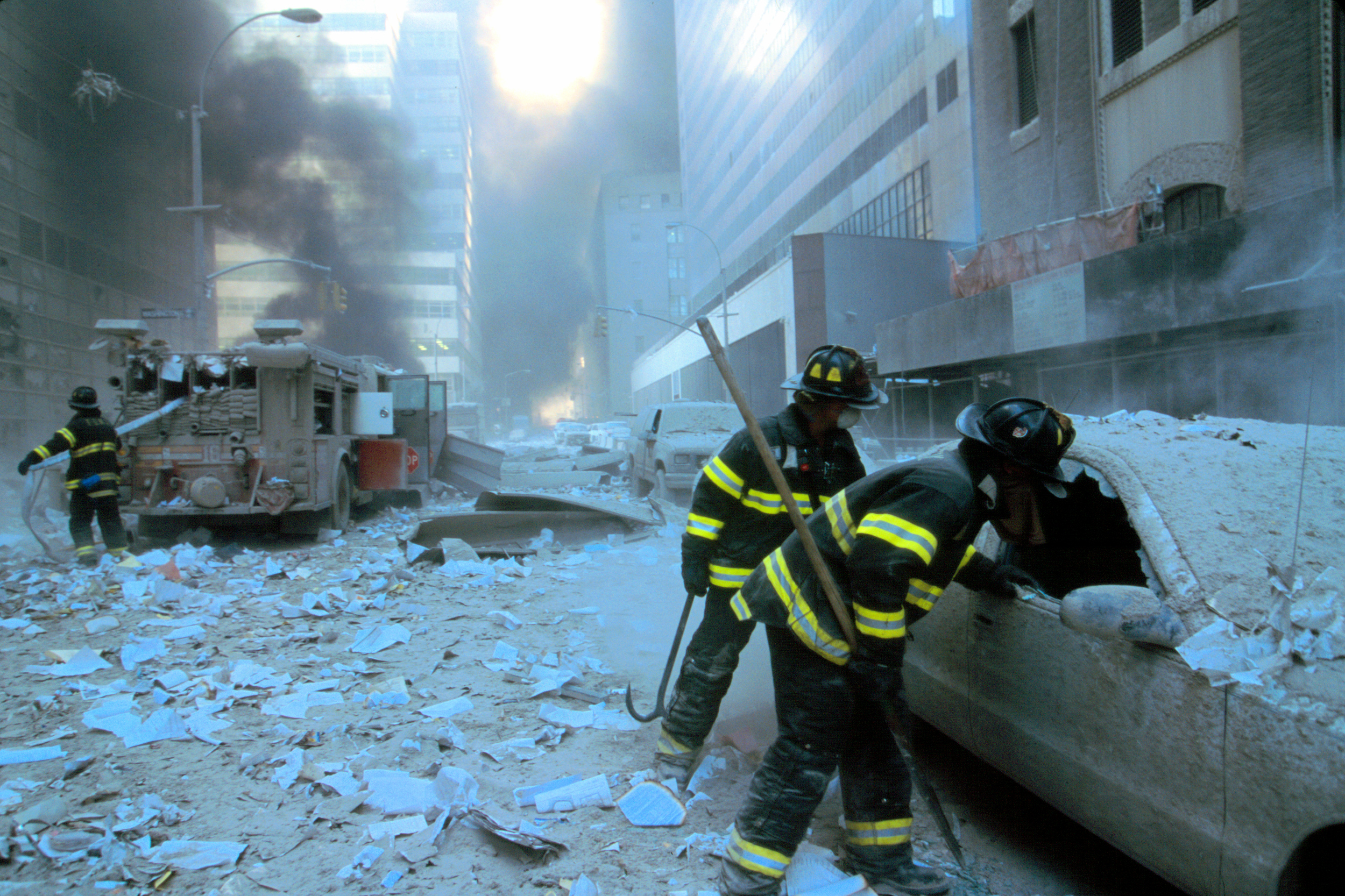 [Two fire fighters looking into car while another New York City fire fighter pulls water hose from fire truck amid smoke and debris following September 11th terrorist attack on World Trade Center, New York City]. Sept. 11, 2001. Image. Retrieved from the Library of Congress, (Accessed September 03, 2016.) Call Number: LC-A05- C09 [item] [P&P] Forms part of: Collection of unattributed photographs... The 250 color slides made at the World Trade Towers in New York City on September 11, 2001, received from the New York District Attorney's office from an unattributed photographer, are in the public domain. Privacy and publicity rights may apply. These slides were received from the New York District Attorney's office with the photographer relinquishing any and all copyright and right of attribution. Therefore, the photographer's name will not be associated with these photographs.